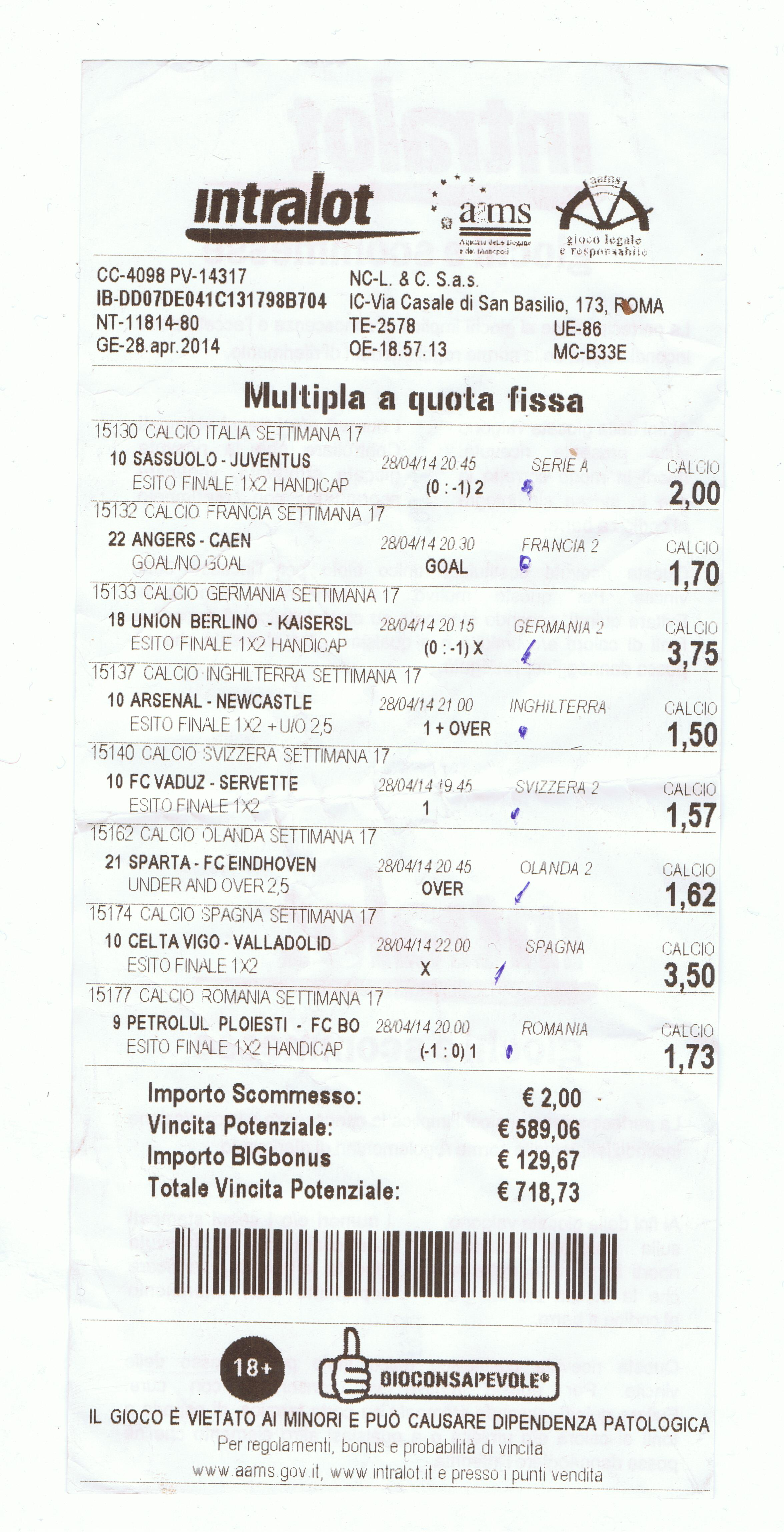 Sports betting tickets in Italy